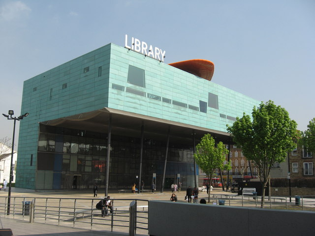 Peckham Library The library was designed by Will Alsop from Alsop & Stormer and it received the 2000 Stirling Award for architectural innovation. It also won the Civic Trust Award (April 2002) for excellence in public architecture - along with the London Eye and Tate Modern. The vivid copper exterior also won it the 2001 Copper Cladding Award. It opened to the public on March 8 2000.